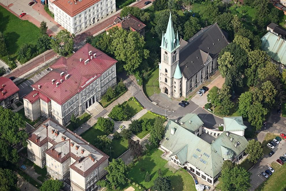 Aerial photography of Bielsko Zion (evangelical quarter in Bielsko-Biała).